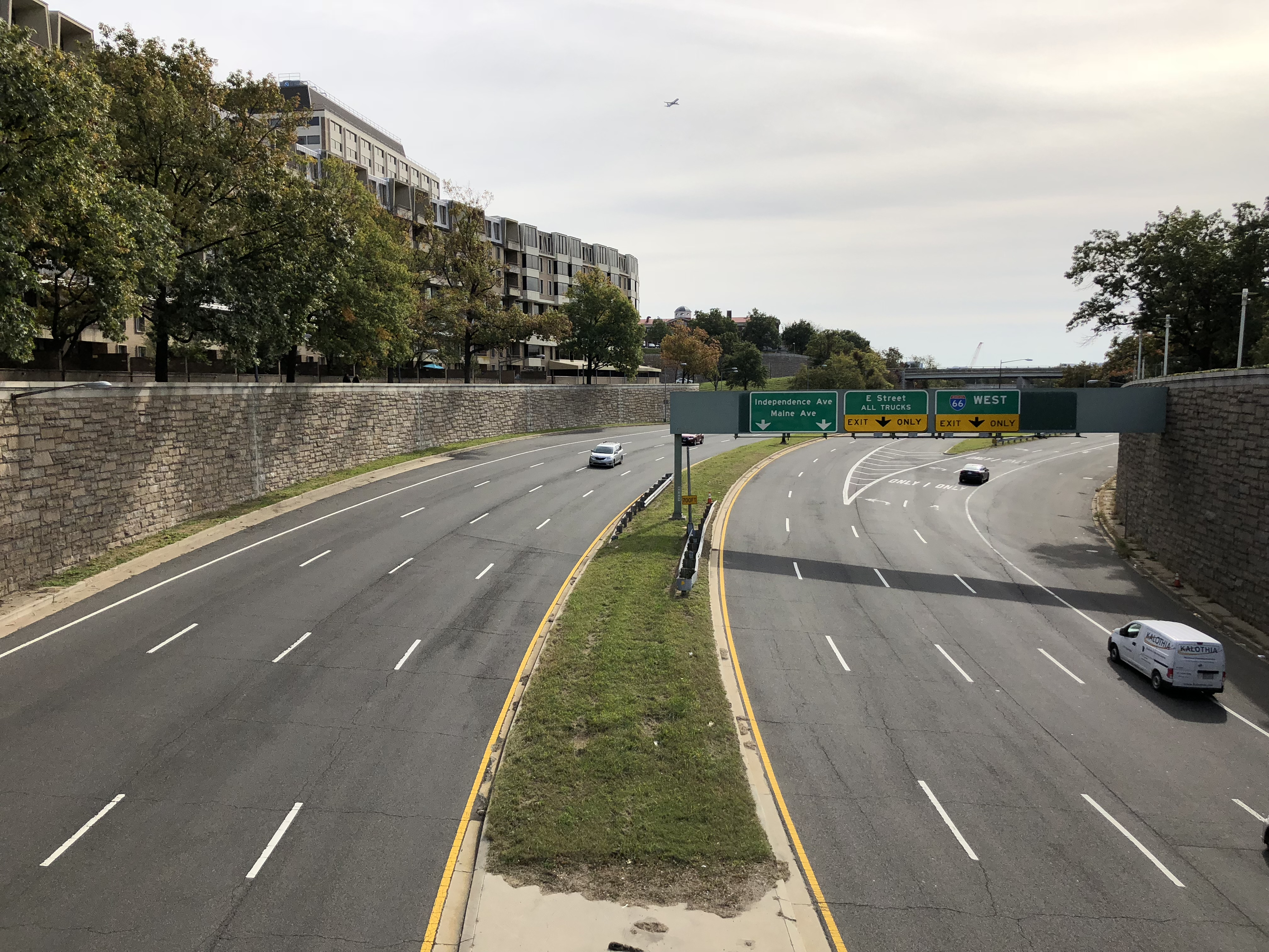 View west along Interstate 66 (Potomac River Freeway) from the overpass for Triangle Park/Virginia Avenue/New Hampshire Avenue/25th Street in Washington, D.C.